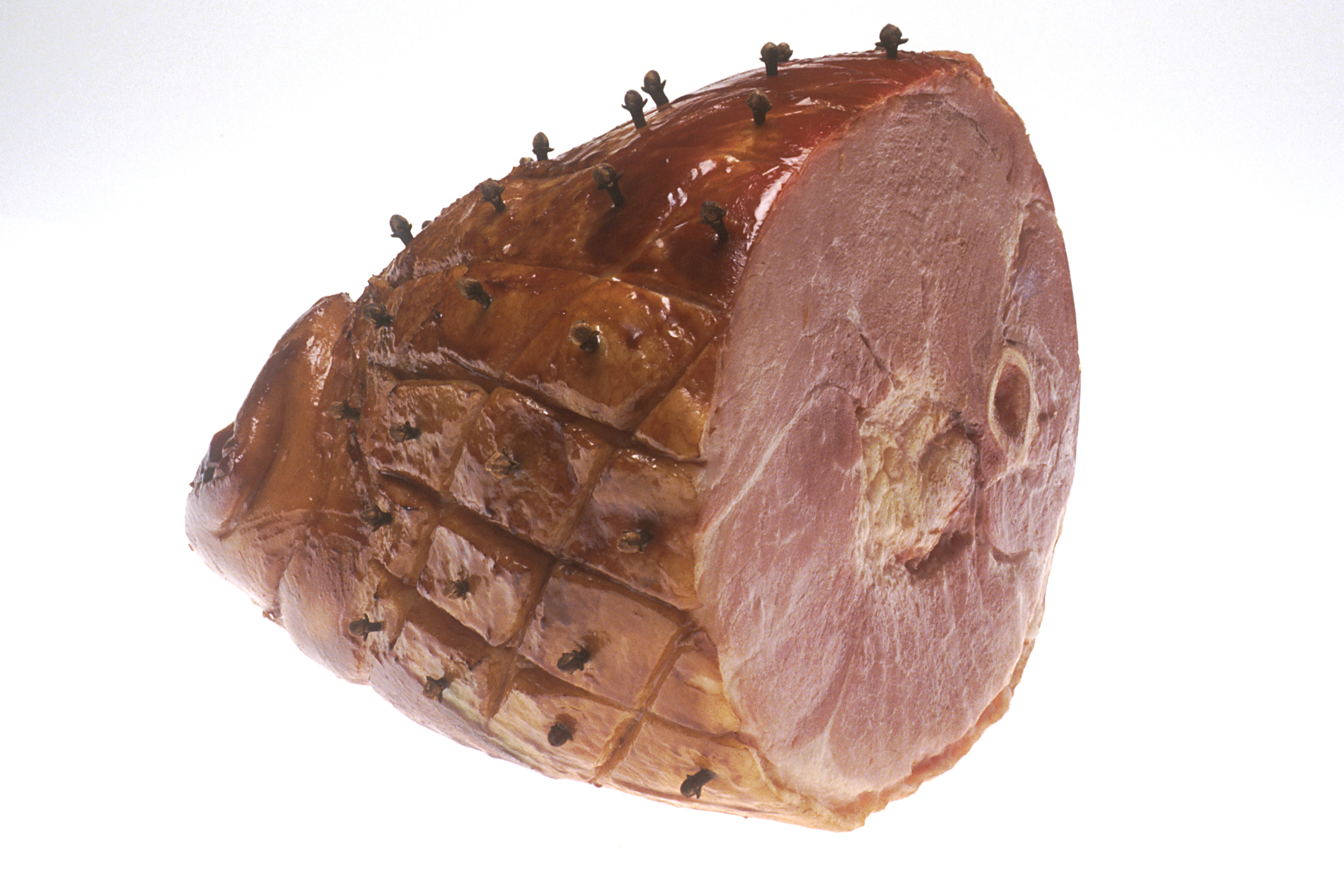 Title Ham Description A whole baked ham, sliced at the end to show inside of cooked ham. Topics/Categories Food and Drink Type Color, Photo Source National Cancer Institute